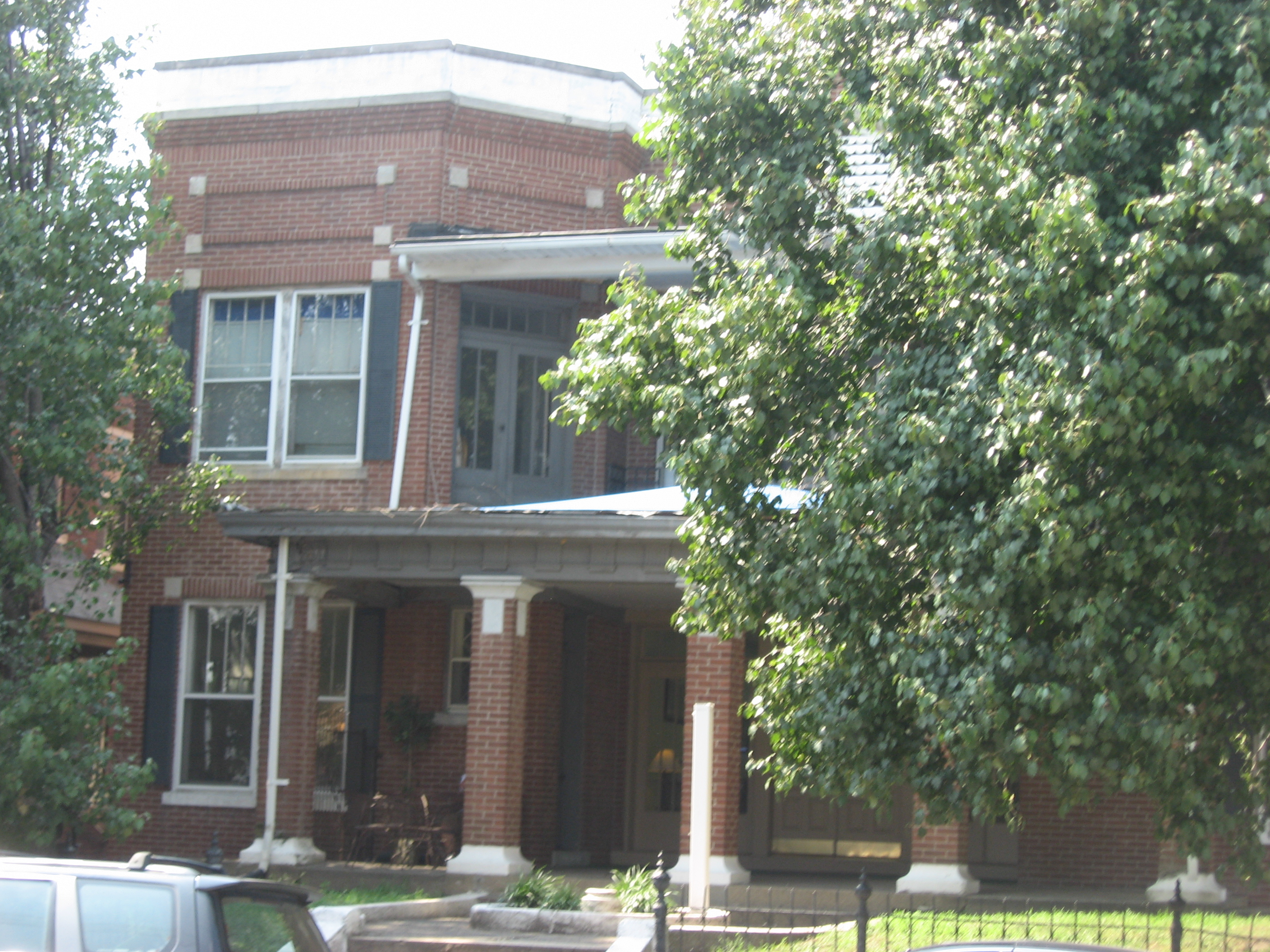 Front of the Van Cleave Flats, located at 704-708 Court Street in Evansville, Indiana, United States. Built in 1910, it is listed on the National Register of Historic Places.